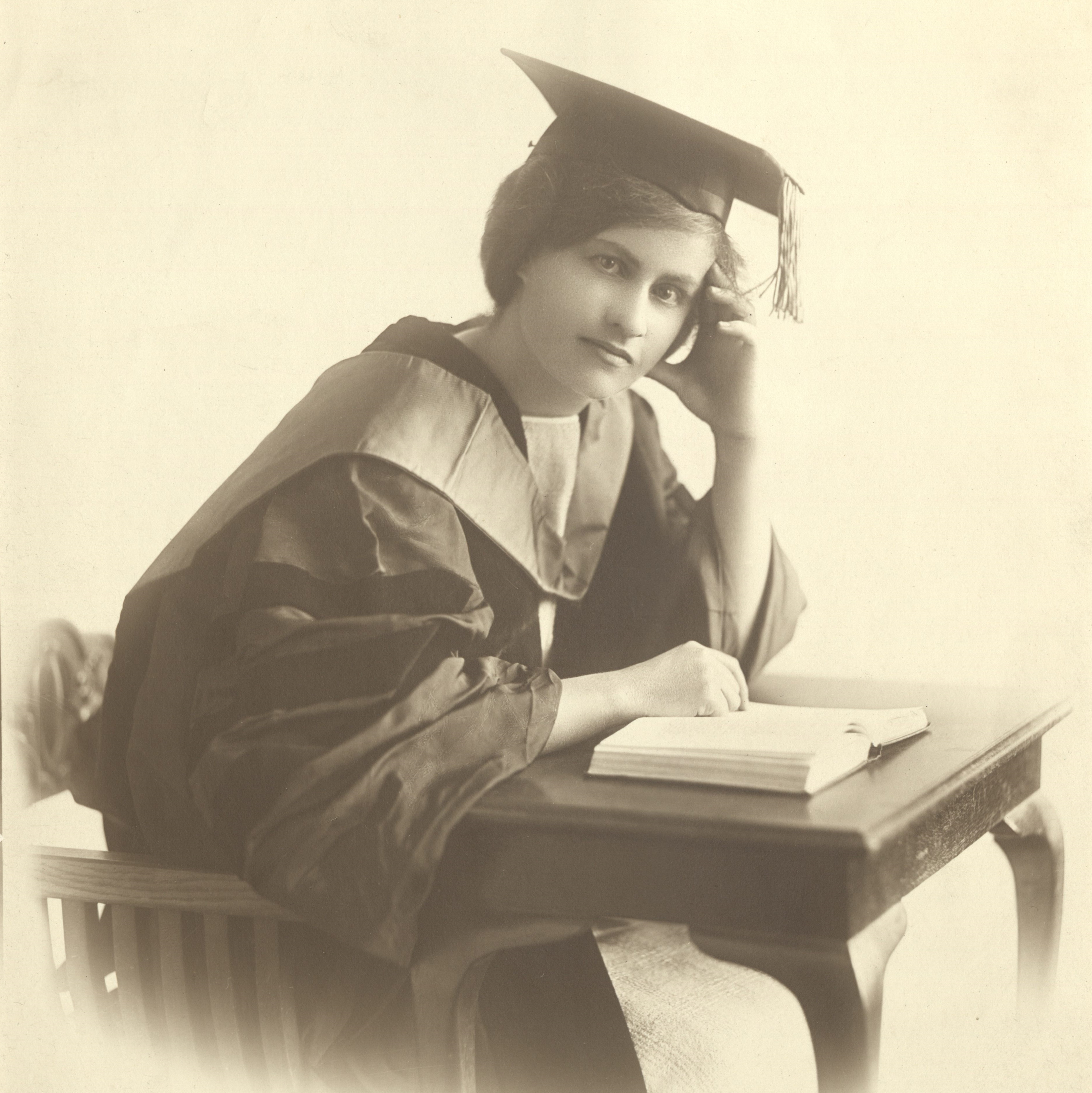 Lorna M. Hodgkinson, first woman to receive a doctorate (Ed.D) from Harvard University